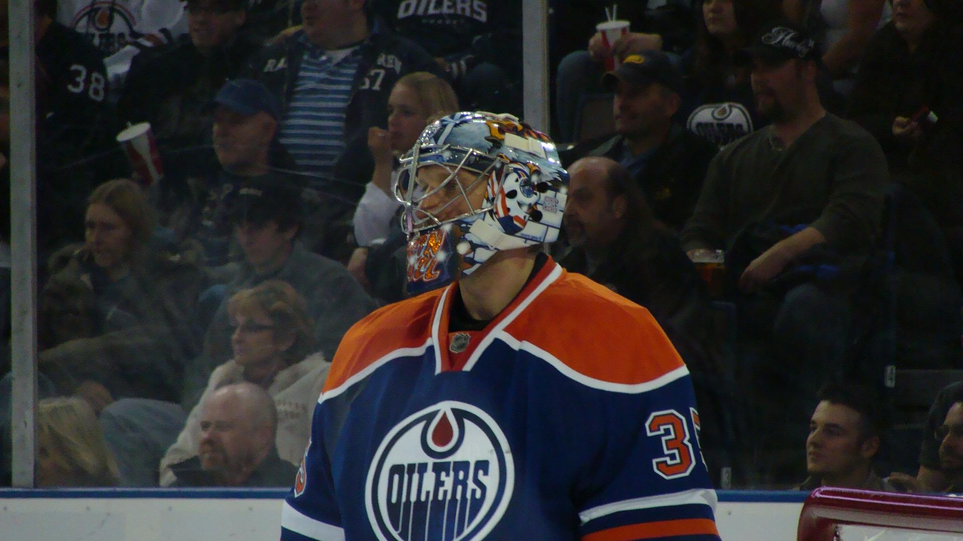 Edmonton Oiler's Goalie #35 KHABIBULIN 2009/10 season Edmonton vs Dallas